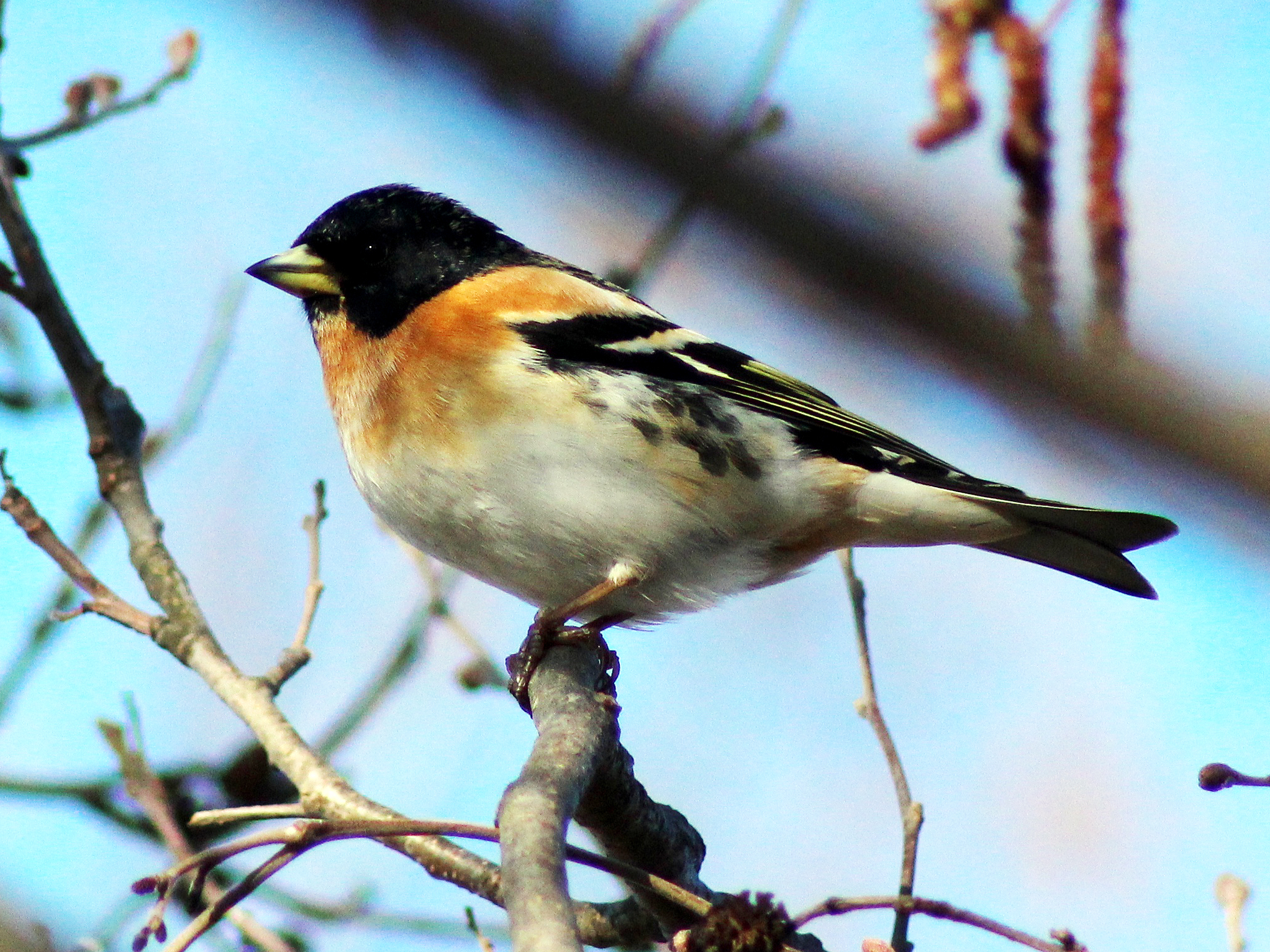 A brambling (Fringilla montifringilla) in Hollihaka Park in Oulu.